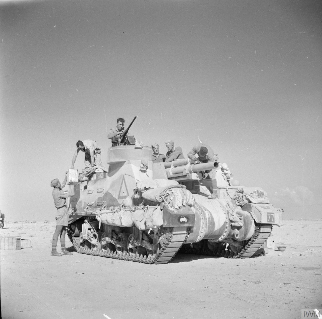 THE BRITISH ARMY IN NORTH AFRICA 1942; A Priest 105mm self-propelled gun of 1st Armoured Division is prepared for action